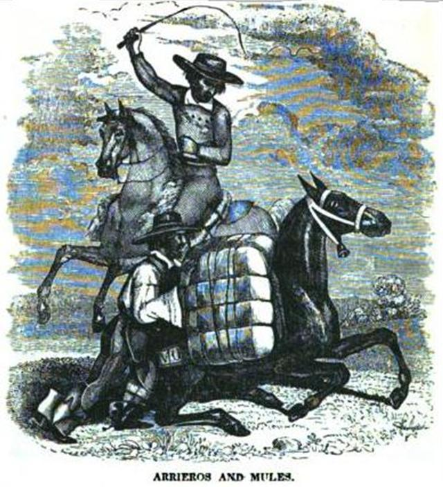 This image of 1853 depict the work of "arrieros" (mule drivers). This activity was a very important one in the trade development between Mexican and American towns around XVII, XVIII and XIX centuries. This is a Public Domain Image from the book Mexico, Aztec, Spanish and Republican: A Historical, Geographical, Political, Statistical and Social Account of that Country of author Brantz Mayer.